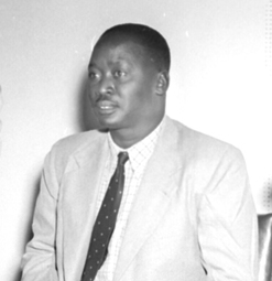 Caption:- Studio/Mar.53,A10zMr. Oginga Odinga, a distinguished African leader of the Kenya Colony was one on a short visit to India in March, 1953, giving a broadcast talk at the New Delhi Station of All India Radio, during his visit to the Station. Photo Number:-32512